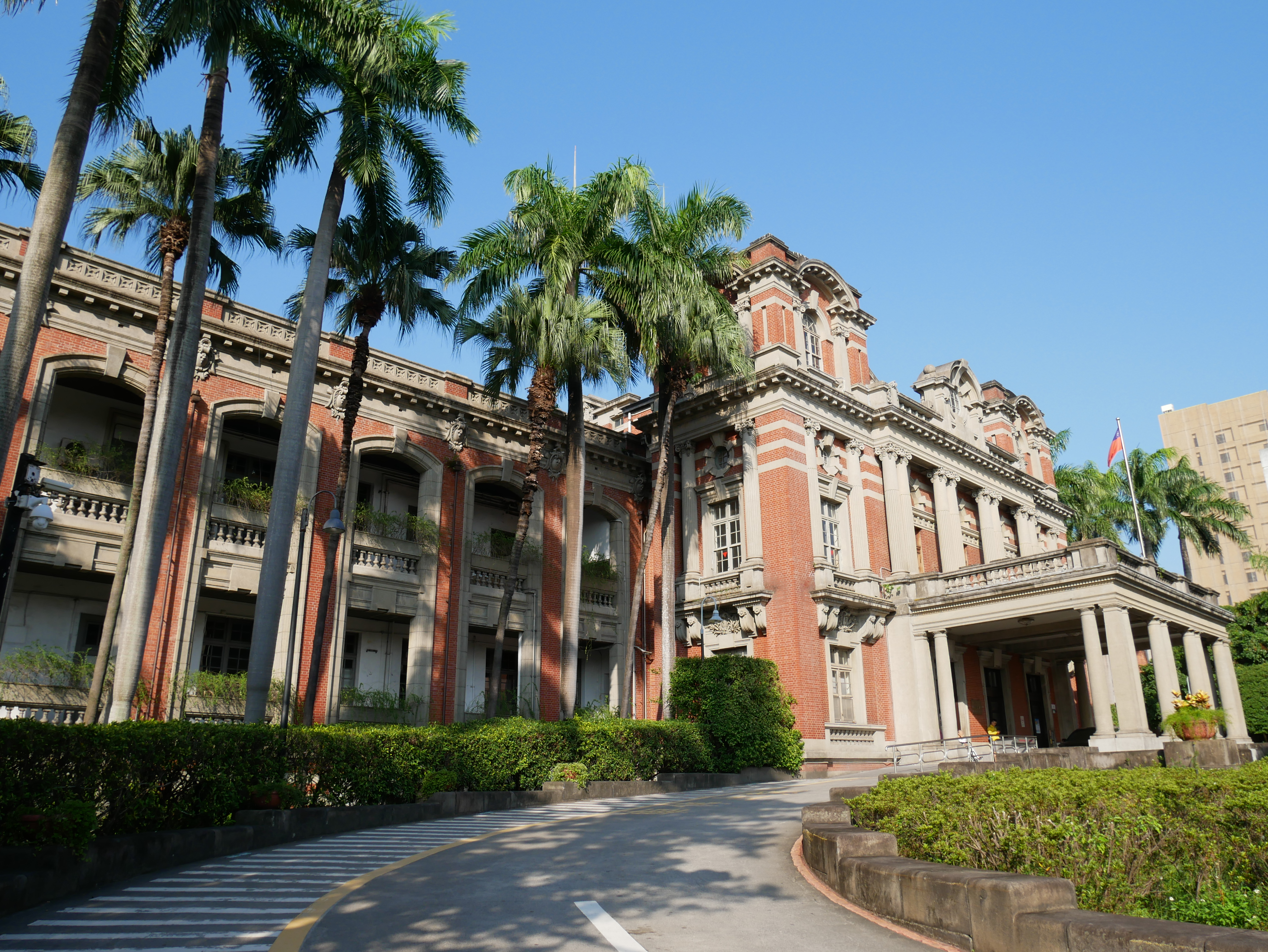 臺灣總督府臺北醫院，臺北市中正區城內次分區黎明里